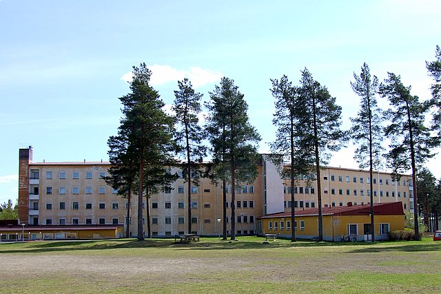 Heikinharju Reception Centre for Refugees in Oulu, Finland. The building is a former mental hospital and it was built in 1959. The hospital was closed in 1991.